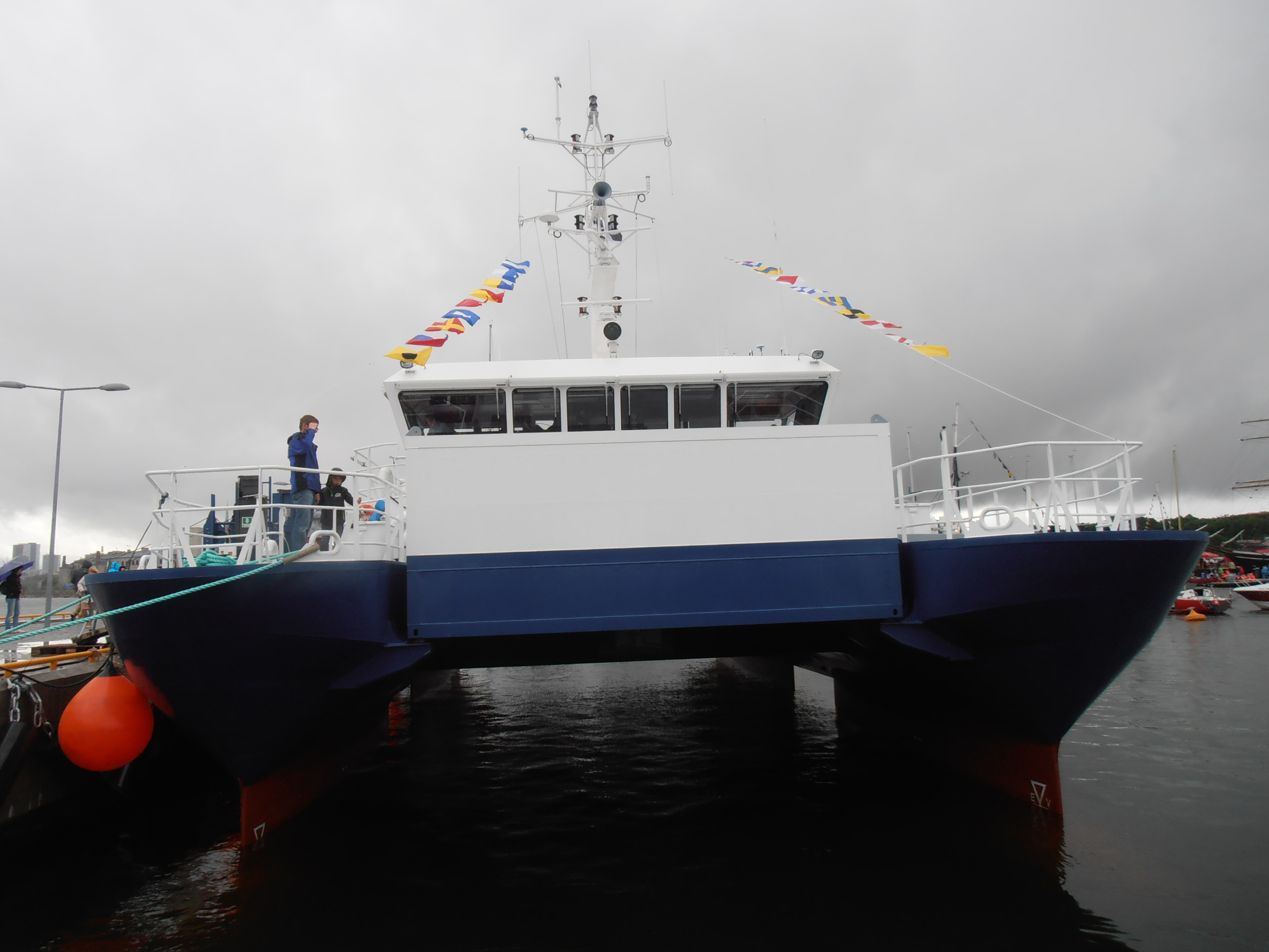 Jakob Prei Bows 15 July 2012